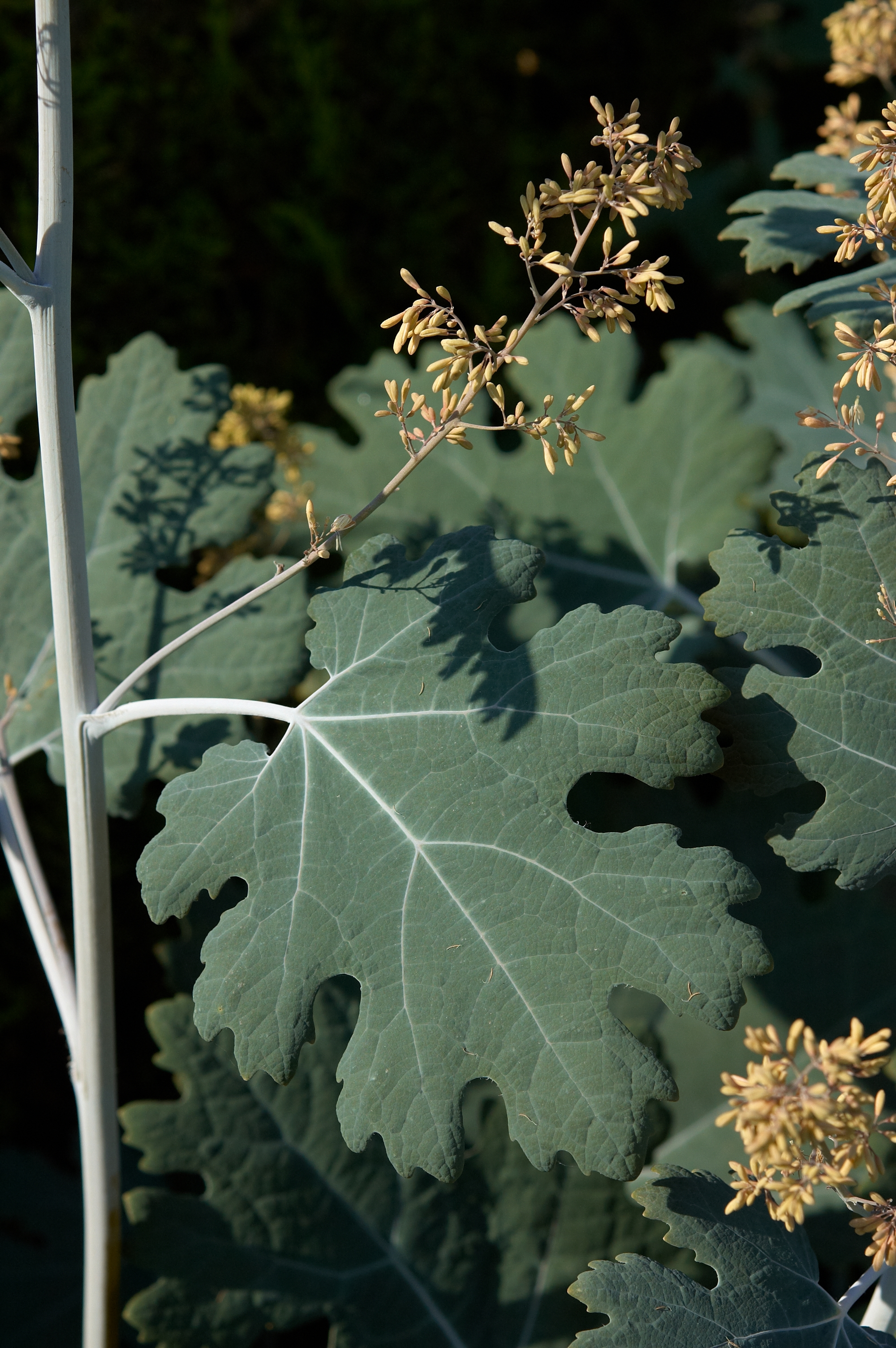 Macleaya cordata